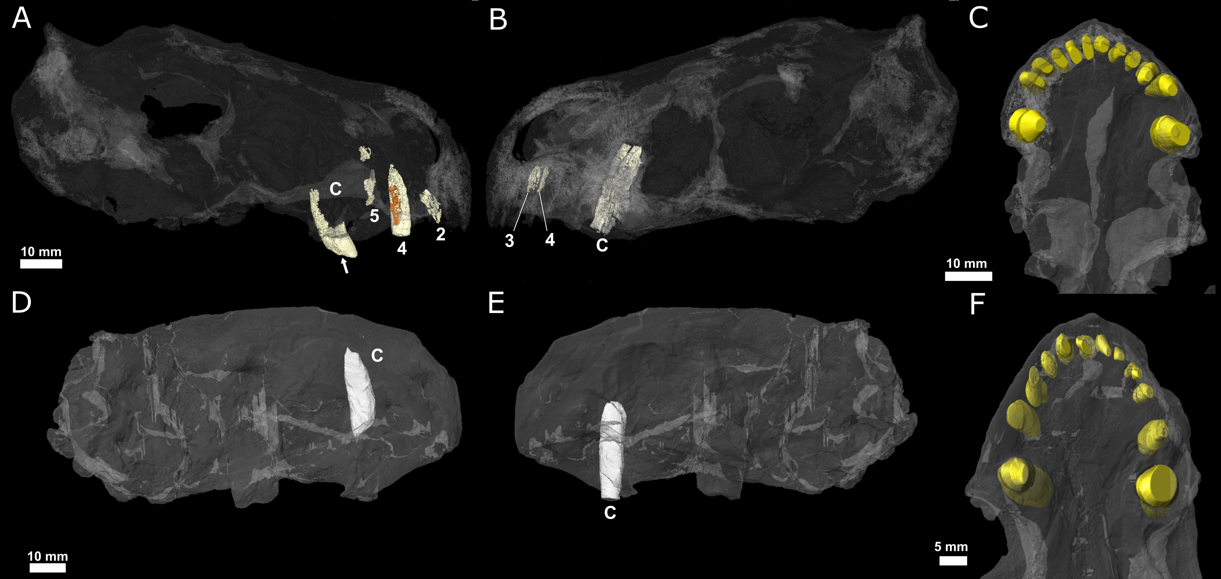 Fig 4. Three-dimensional rendering of the tooth rows of Euchambersia mirabilis. A, B, C, BP/1/4009; D, E, F, NHMUK 5696. A, D, lingual face of the left teeth seen through the transparent skull; B, E, lingual view of the right teeth seen through the transparent skull; C, F, ventral view showing the position of the tooth sockets (reconstructed in yellow). The fourth replacement incisor of BP/1/4009 is coloured in orange. Abbreviations: 2, second incisor; 3, third incisor; 4, fourth incisor; 5, fifth incisor; C, canine. The white arrow points to a crack on the right canine of BP/1/4009.